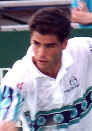 1992 Thriftway Championships Cincinnati, Ohio Film Scan Camera Canon AE1